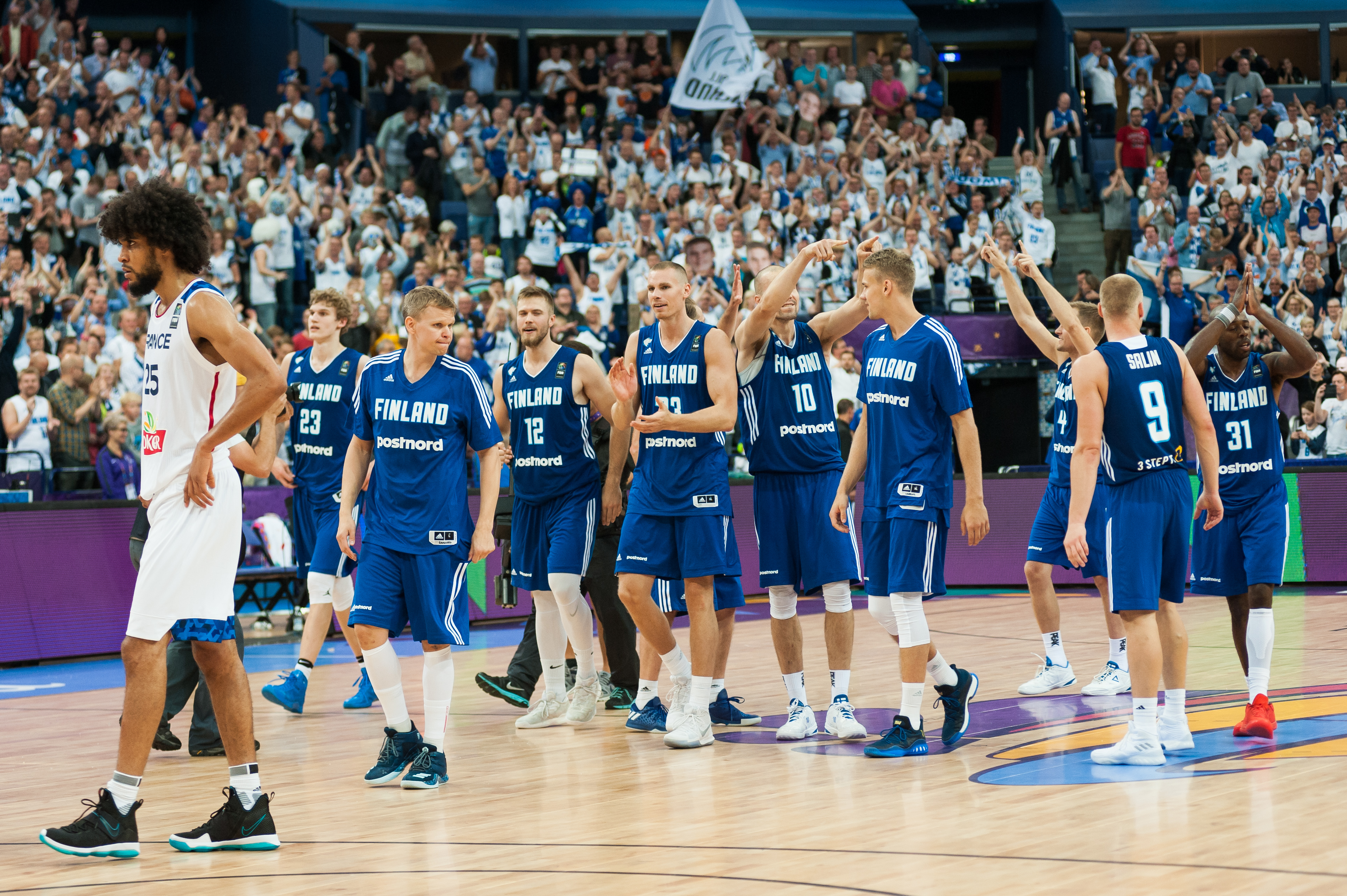 EuroBasket 2017 Group A game between France and Finland at Hartwall Arena in Helsinki, Finland.